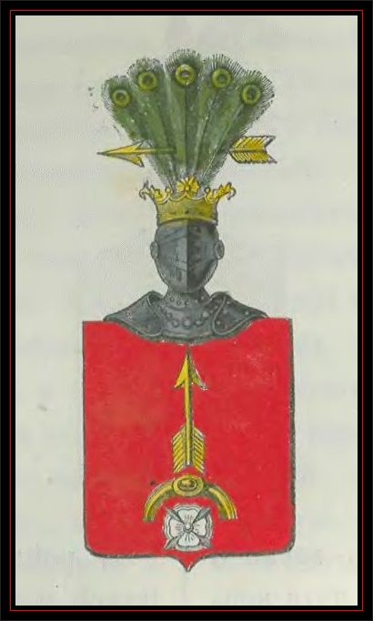 The image of the coat of arms from 1853 Gnieszawa